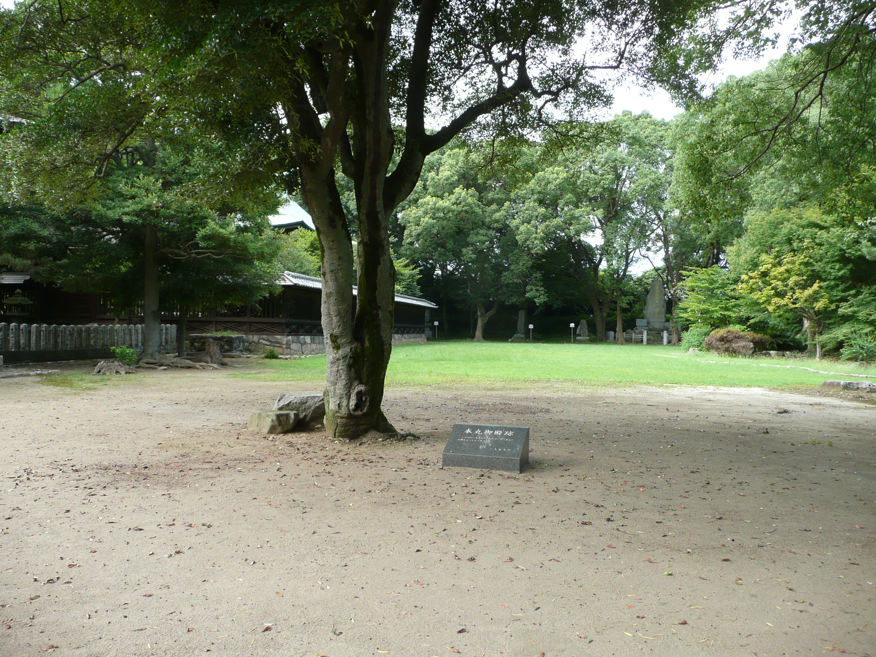 久留米城の本丸御殿跡